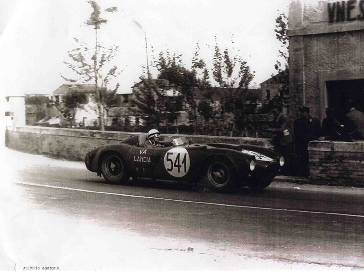 Gino Valenzano in Lancia D24 at 1954 Mille Miglia. He did not finish.